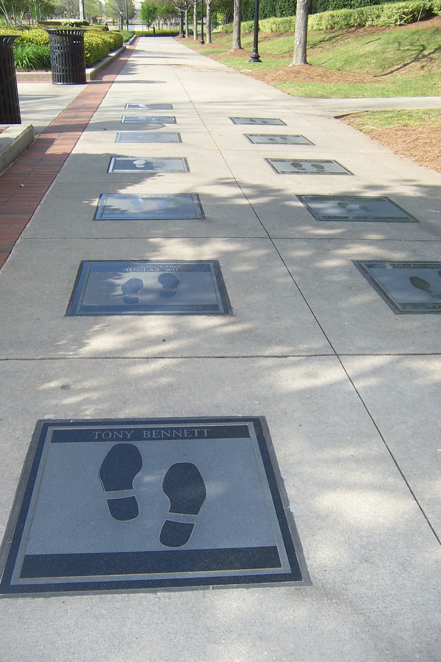 Tony Bennett's footprint square at the International Civil Rights Walk of Fame in Atlanta, Georgia.